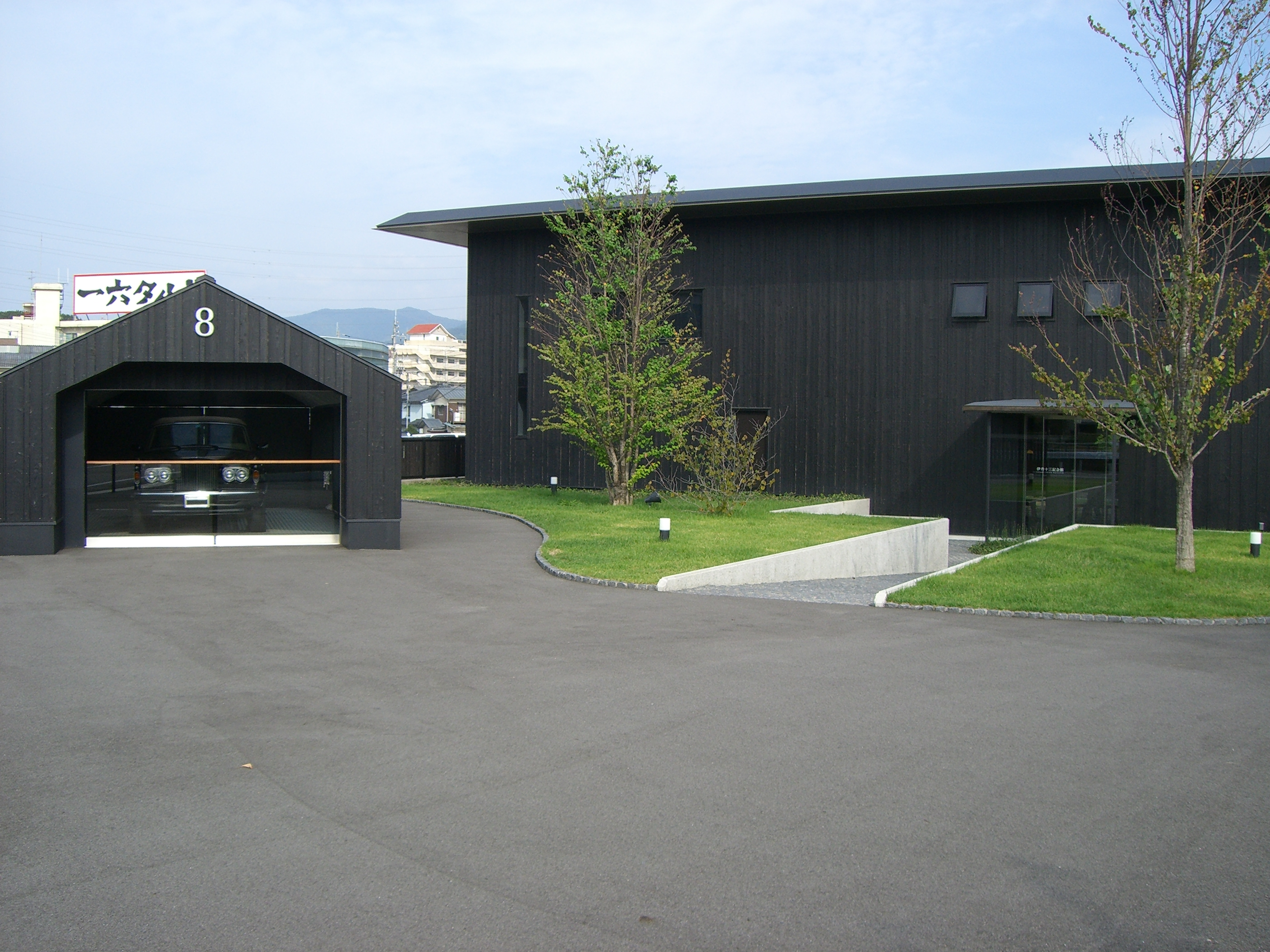 “Itami-Juzo-Museum”Juzo Itami was a movie director, an actor, an illustrator, a commercial designer,a writer, an essayist and so on. (Ehime,JAPAN) Open 10:00am～6:00pm Closed : Tuesday